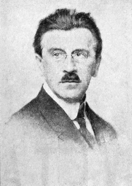 Václav Ertl (1875–1929) was a Czech linguist and translator.